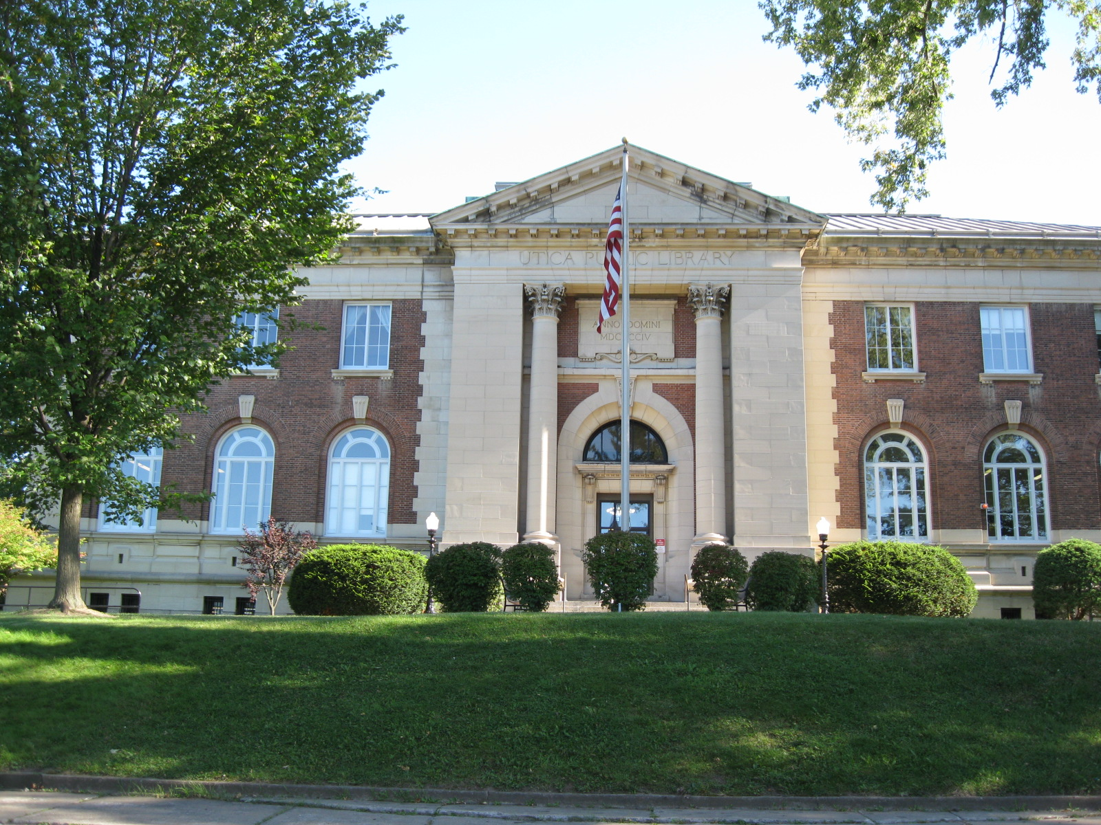 Utica Public Library, at Utica, New York, United States.